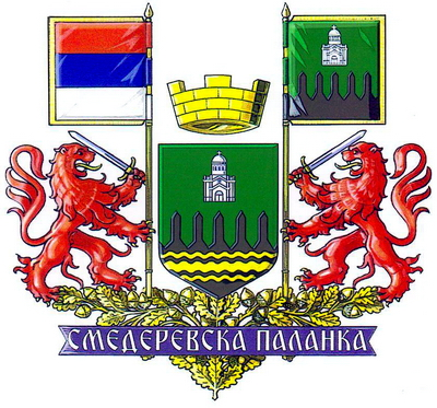 Coat of arms of Smederevska Palanka